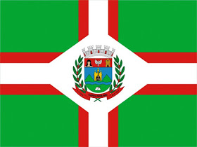 Flags of the city of Capelinha, Minas Gerais, Brazil.